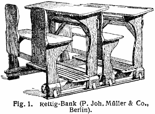 Desks and bench chairs